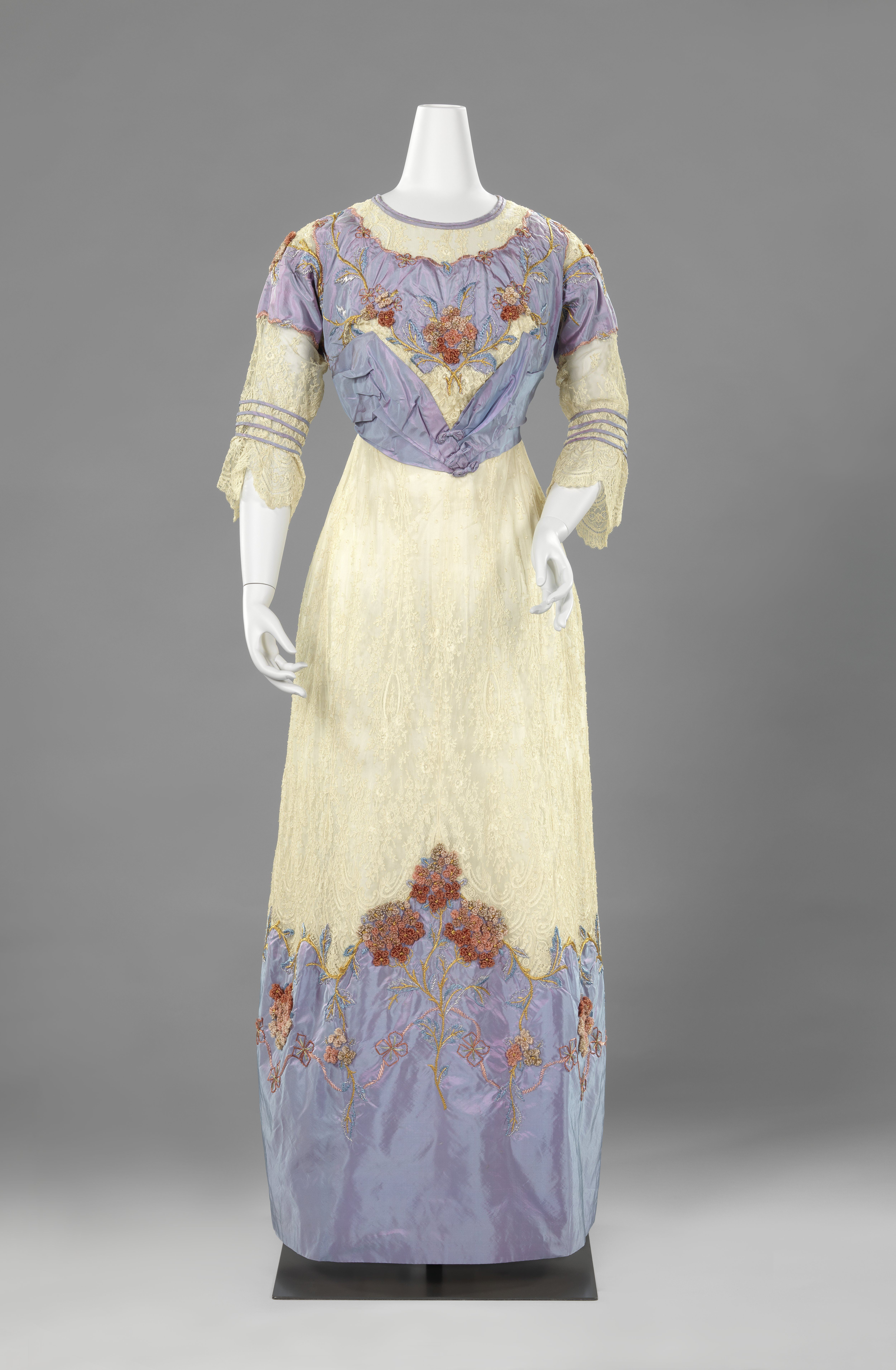 Dress of Anna Maria du Méé at the Rijksmuseum Amsterdam